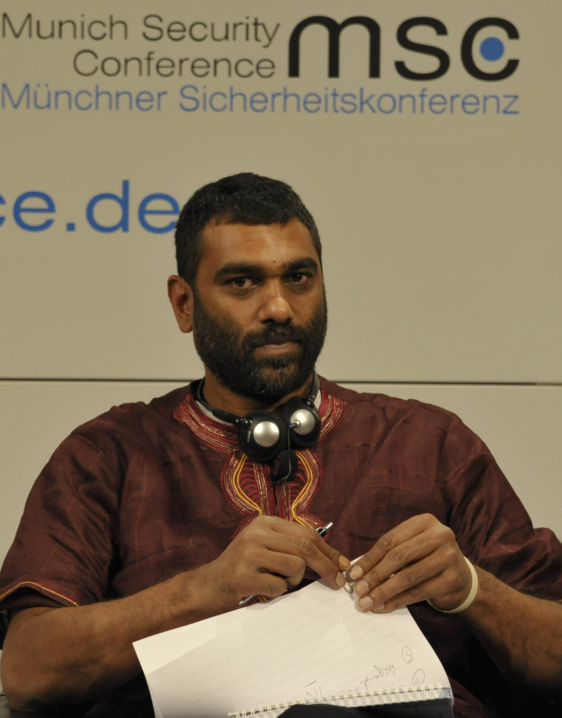 48th Munich Security Conference 2012: Kumi Naidoo, Executive Director, Greenpeace International, Amsterdam.